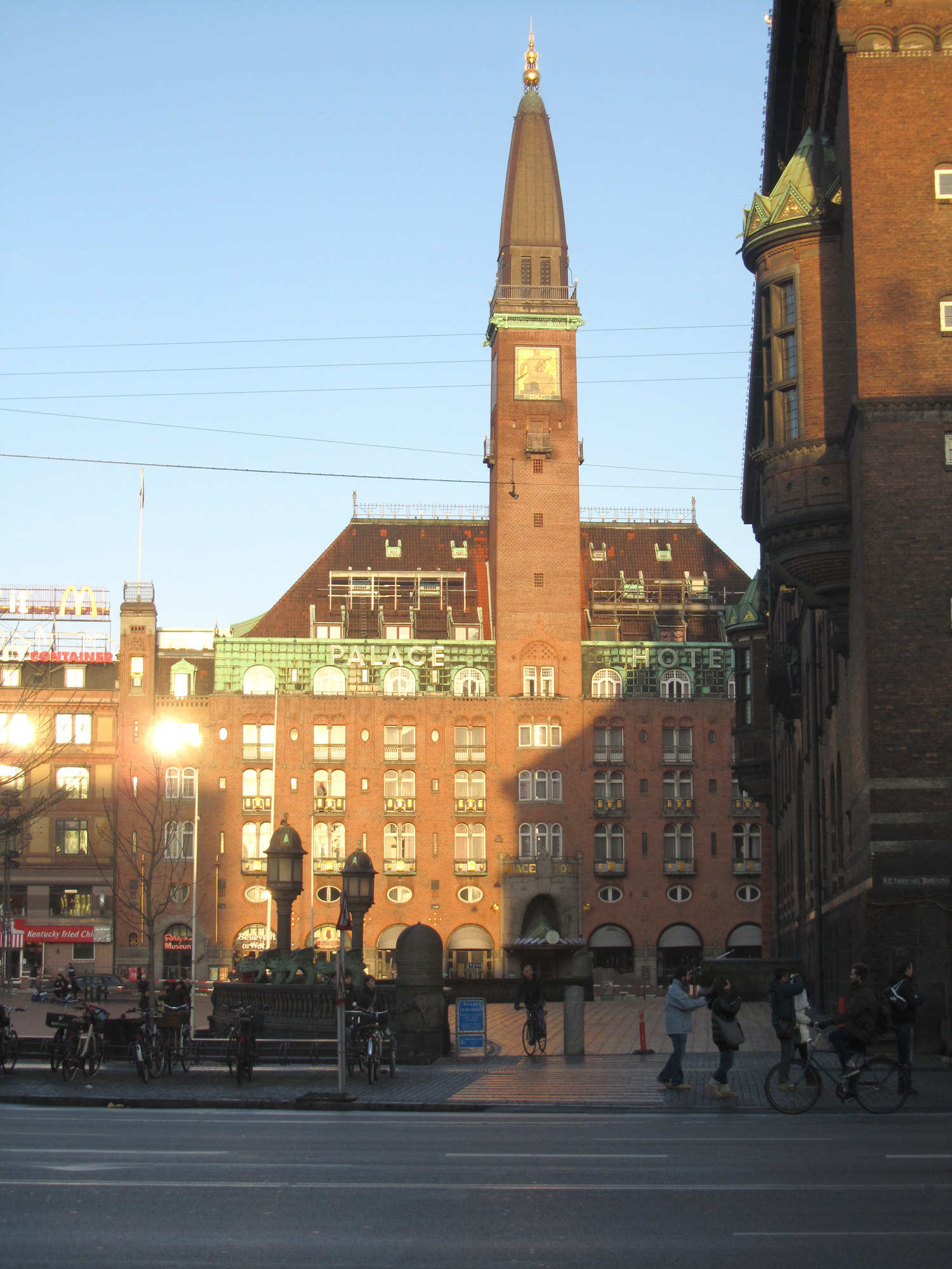 Palace Hotel in Copenhagen